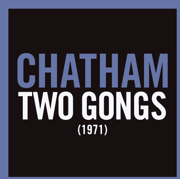 Cover art of Rhys Chatham's 2006 album “Two Gongs (1971)”.